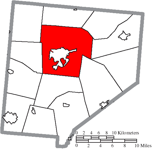 Map of the municipal and township boundaries of Clinton County, Ohio, United States, as of the 2000 census, with the location of Union Township highlighted. Township borders are shown only in unincorporated areas in order to differentiate incorporated and unincorporated areas more clearly.